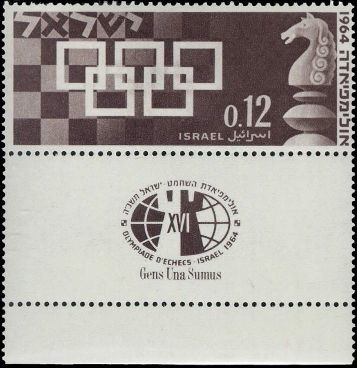 A stamp marking the 16th Chess Olympiad